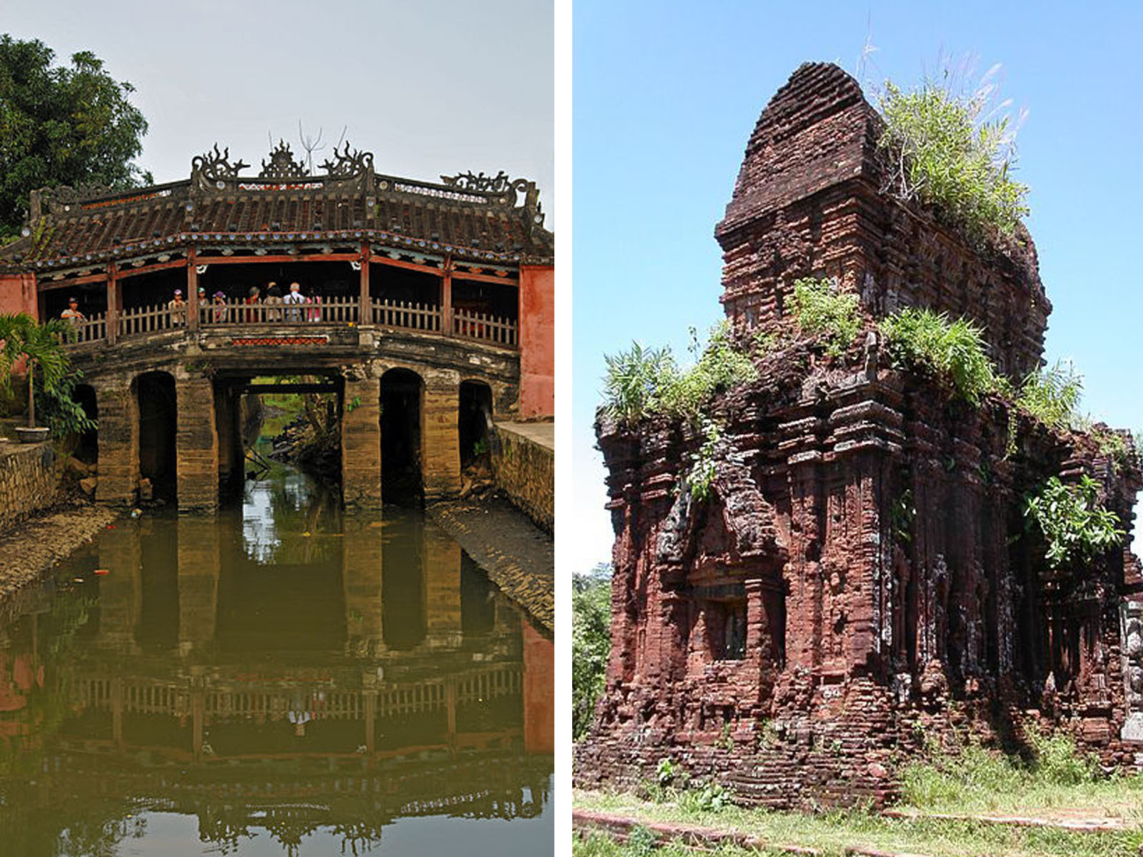 Combined images of landmarks in Quang Nam Province.